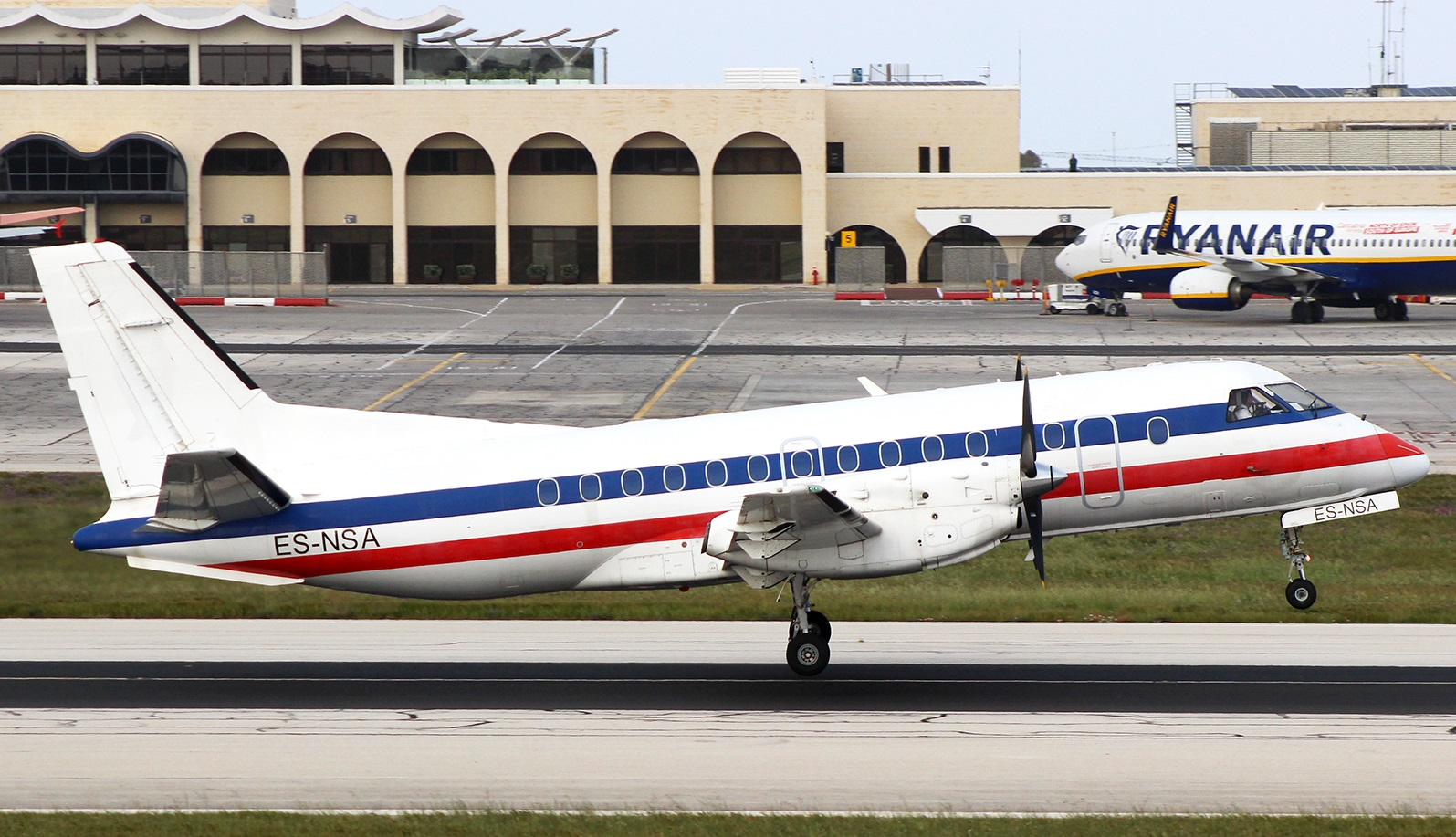 Nyxair OÜ Saab 340B, ex-member of the American Eagle Airlines fleet Saab 340